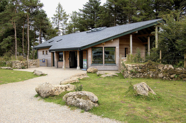 Haytor Centre The Dartmoor National Park Authority visitor centre at the eastern gateway to Dartmoor. WC facilities and essential information can be obtained here.